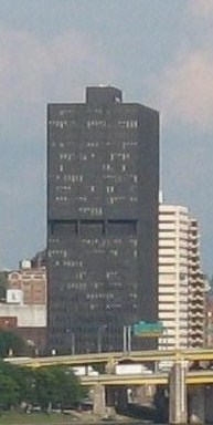 11 Stanwix Street.